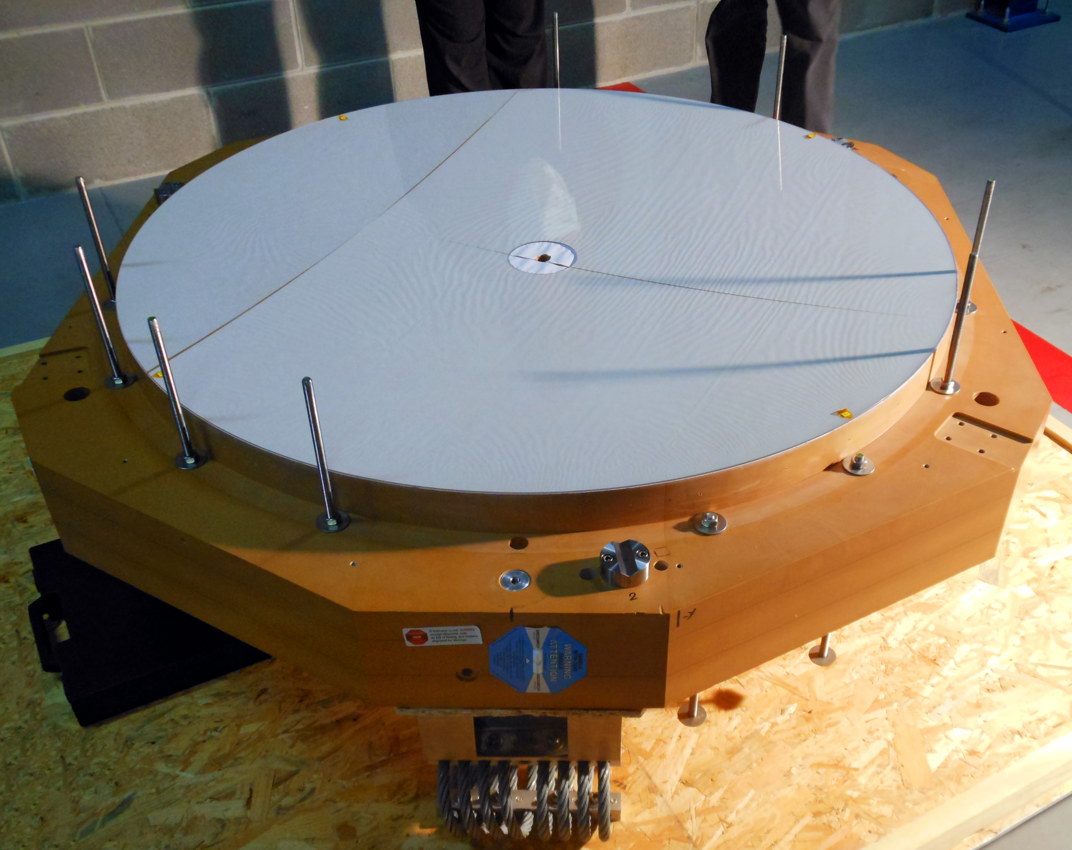 A second shell mirror of remarkable quality has been delivered to ESO by Safran–Reosc. This is an improved version of an earlier shell mirror delivered in late 2011. Both mirrors are a mere 2 millimetres thin but 1.12 metres in diameter, and will be crucial for the upgrade of Unit Telescope 4 of ESO’s Very Large Telescope (VLT) to a fully adaptive system. A thin shell mirror is deformed several thousand times per second to compensate for turbulence in the Earth’s atmosphere. The result is a much sharper image, allowing astronomers to study the Universe in greater detail than possible before.